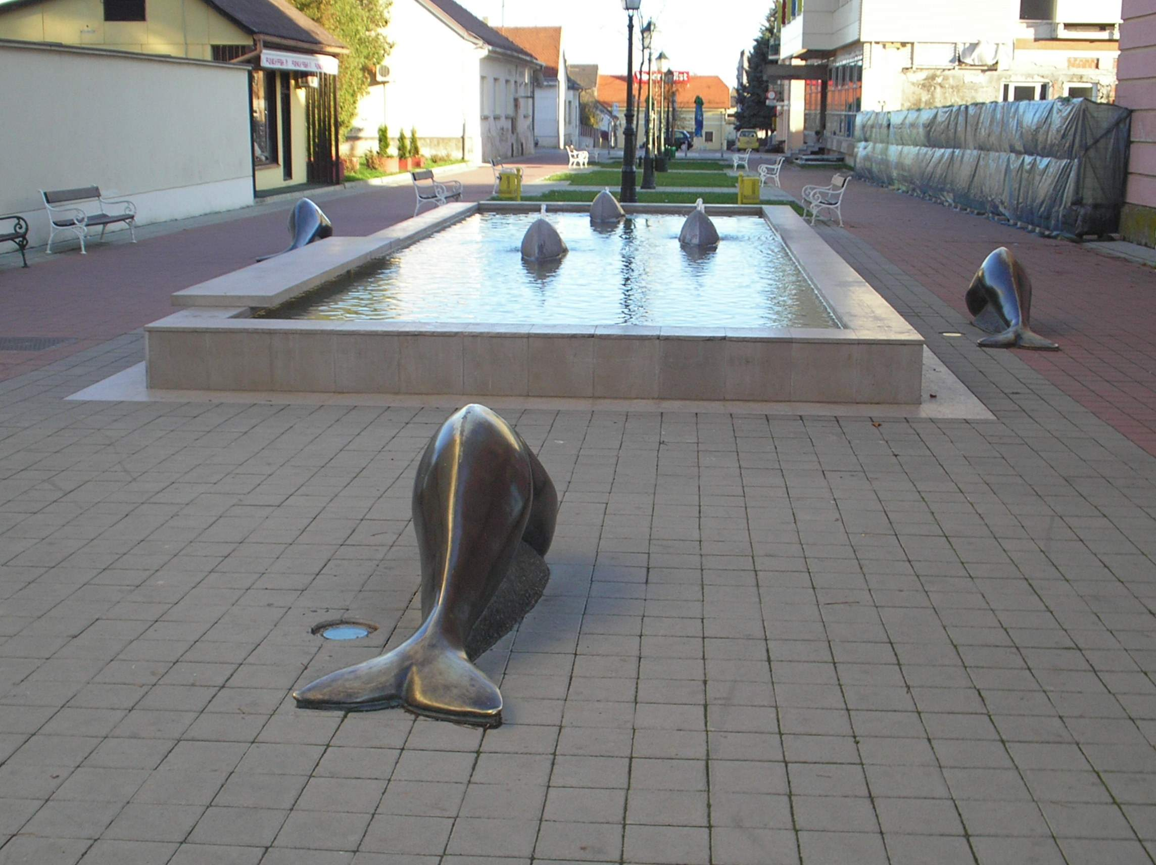 „Return of Pannonian whales“ — Fountain in Bjelovar, Croatia